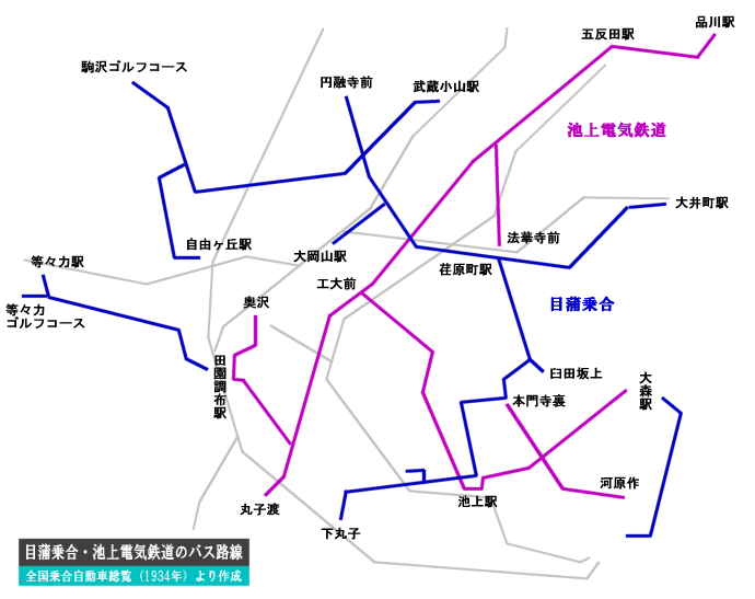 bus lines of Mekama noriai and Ikegami electric railway in 1934